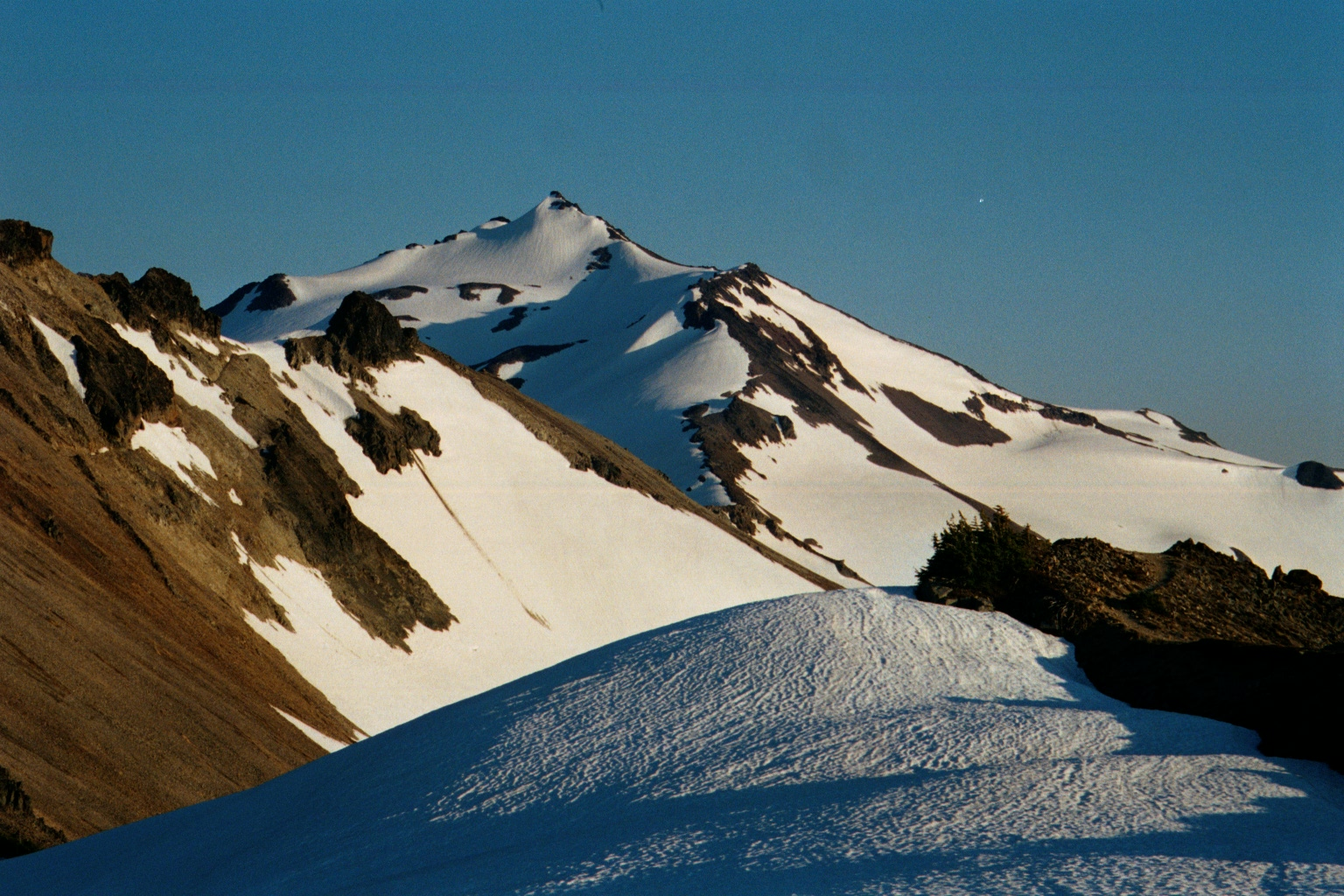 Old Snowy Mountain, 7880+ feet, west slope of pt. 7210' in middle distance, Pacific Crest Trail faintly visible on the latter. Viewpoint location: Pt. 6960+', 350 meters southeast of Elk Pass. Viewpoint elevation: 1926 meter (6320 ft) View direction: South Location source: Topozone, Casio 1675 altimeter watch Location Datum: WGS84